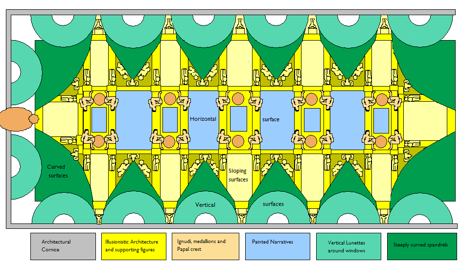 Sistine Chapel, the scheme of illusionistic architecture on the ceiling, by Michelangelo